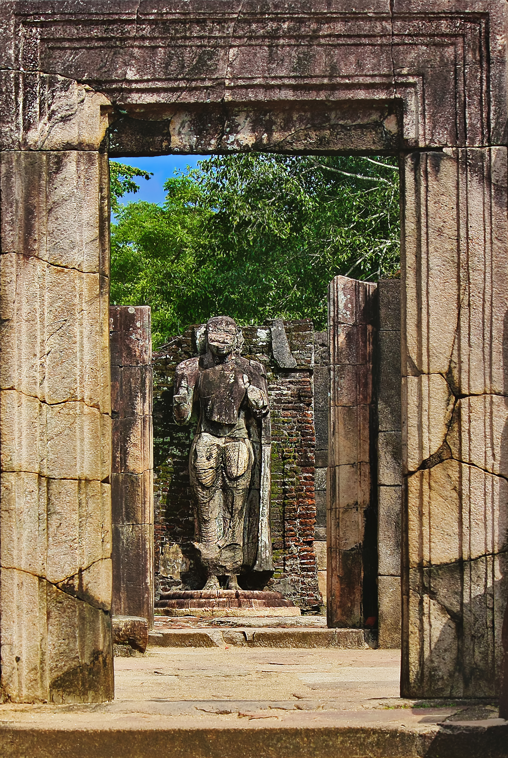 Ruin of Buddha statue in Hatadage, Polonnaruwa. It is one of three in Hatadage. It is taller and center statue at the house which was an ancient shrine that housed the tooth relic during the Polonnaruwa Kingdom.